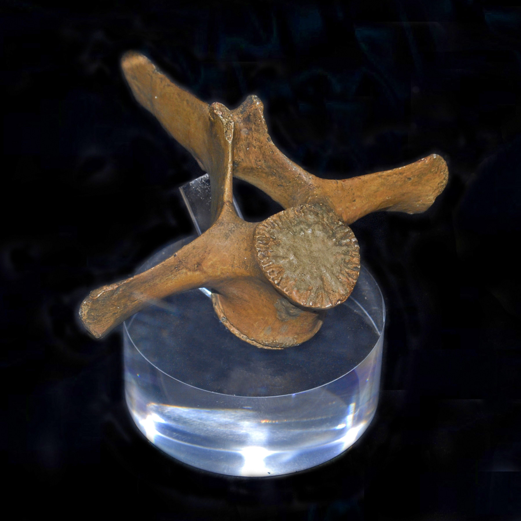 Fossil vertebrae of Plesiocetus, on display at the Museo Civico Craveri di Scienze Naturali - Bra